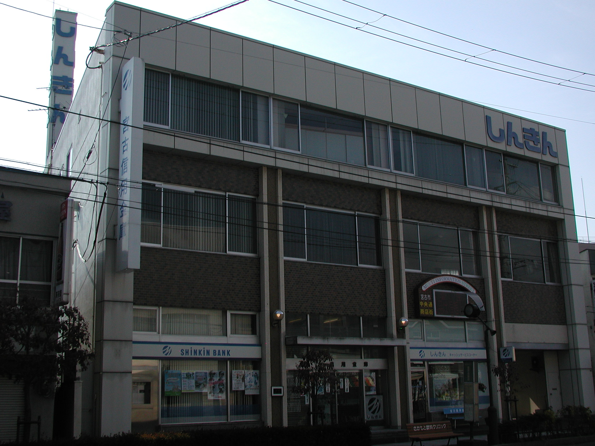 The Miyako Shinkin Bank Head Shops